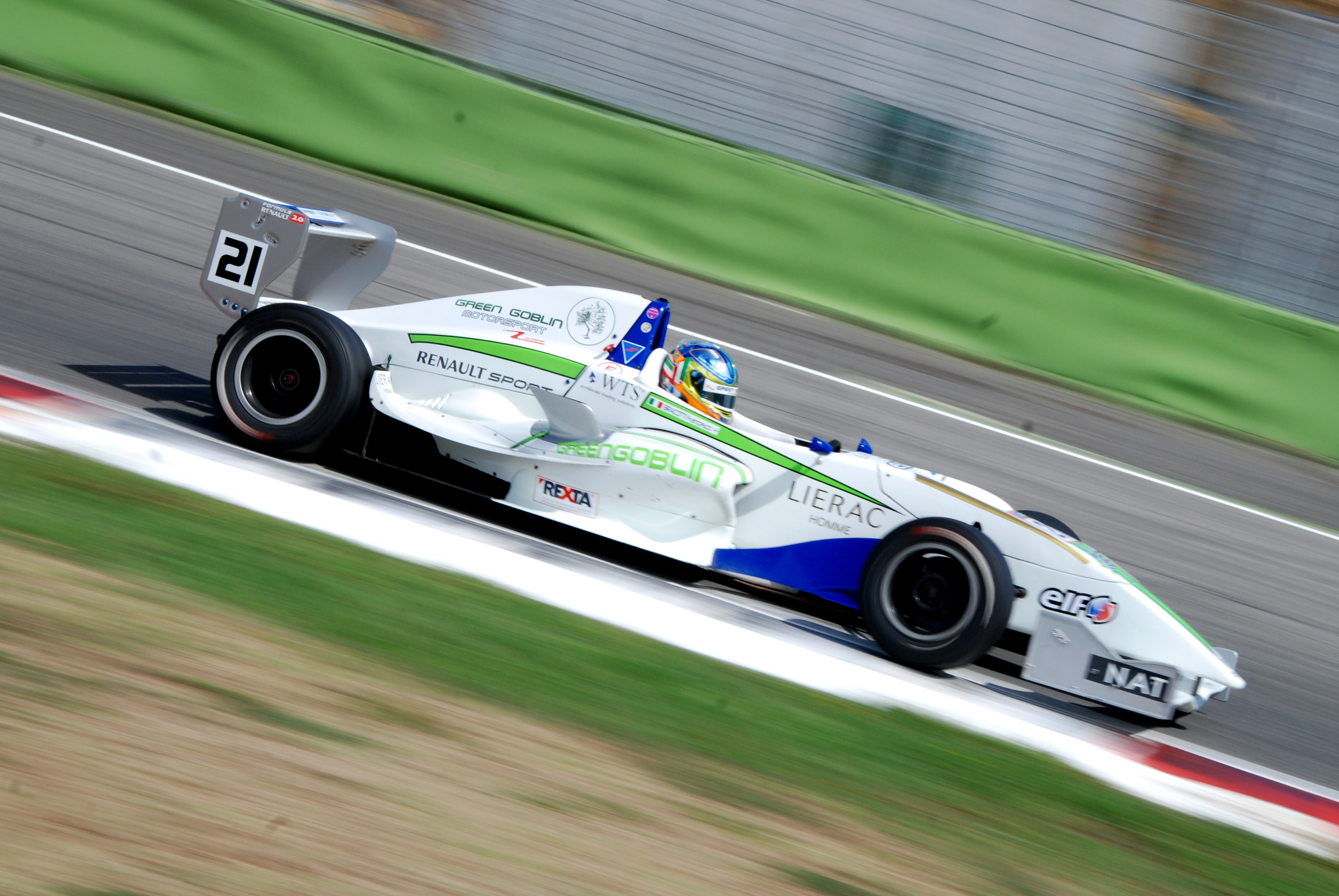 Francesco Bracotti in a Formula Renault 2.0